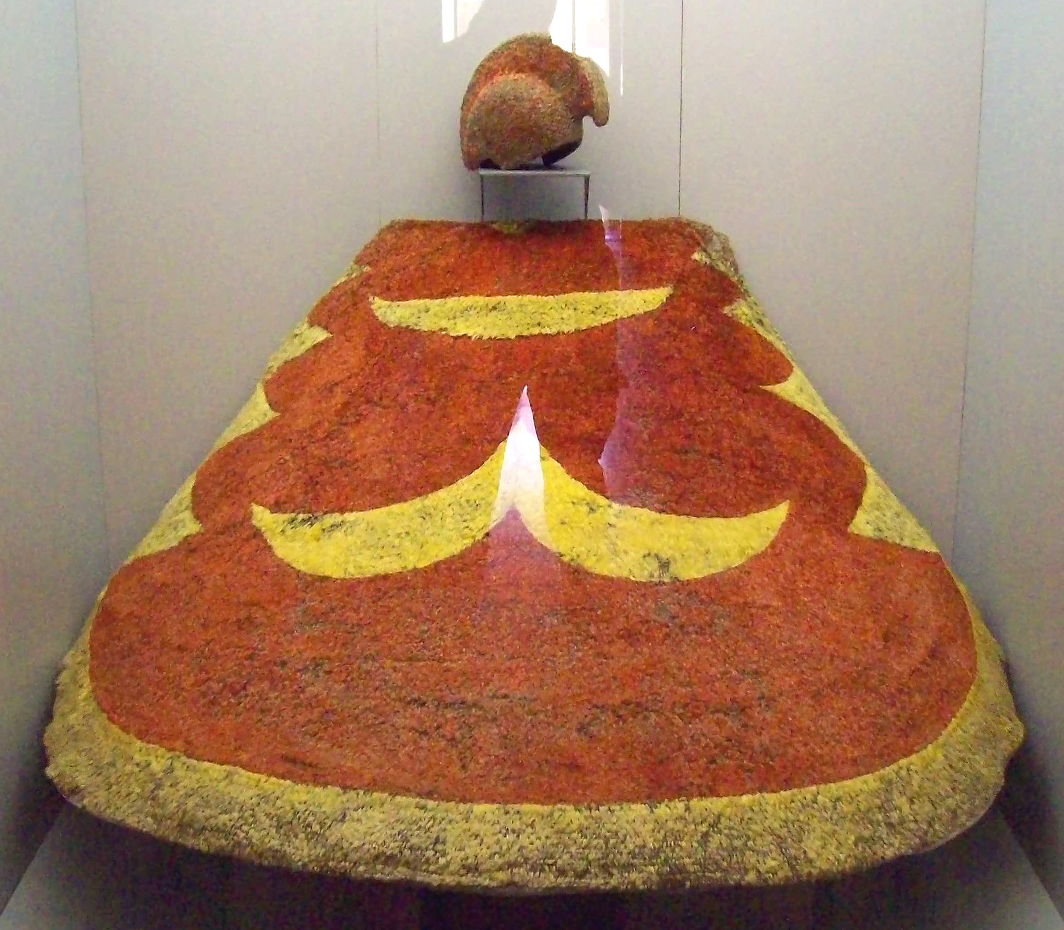 Cap and cloak from Hawaii. Used by princes as indicators of their status.